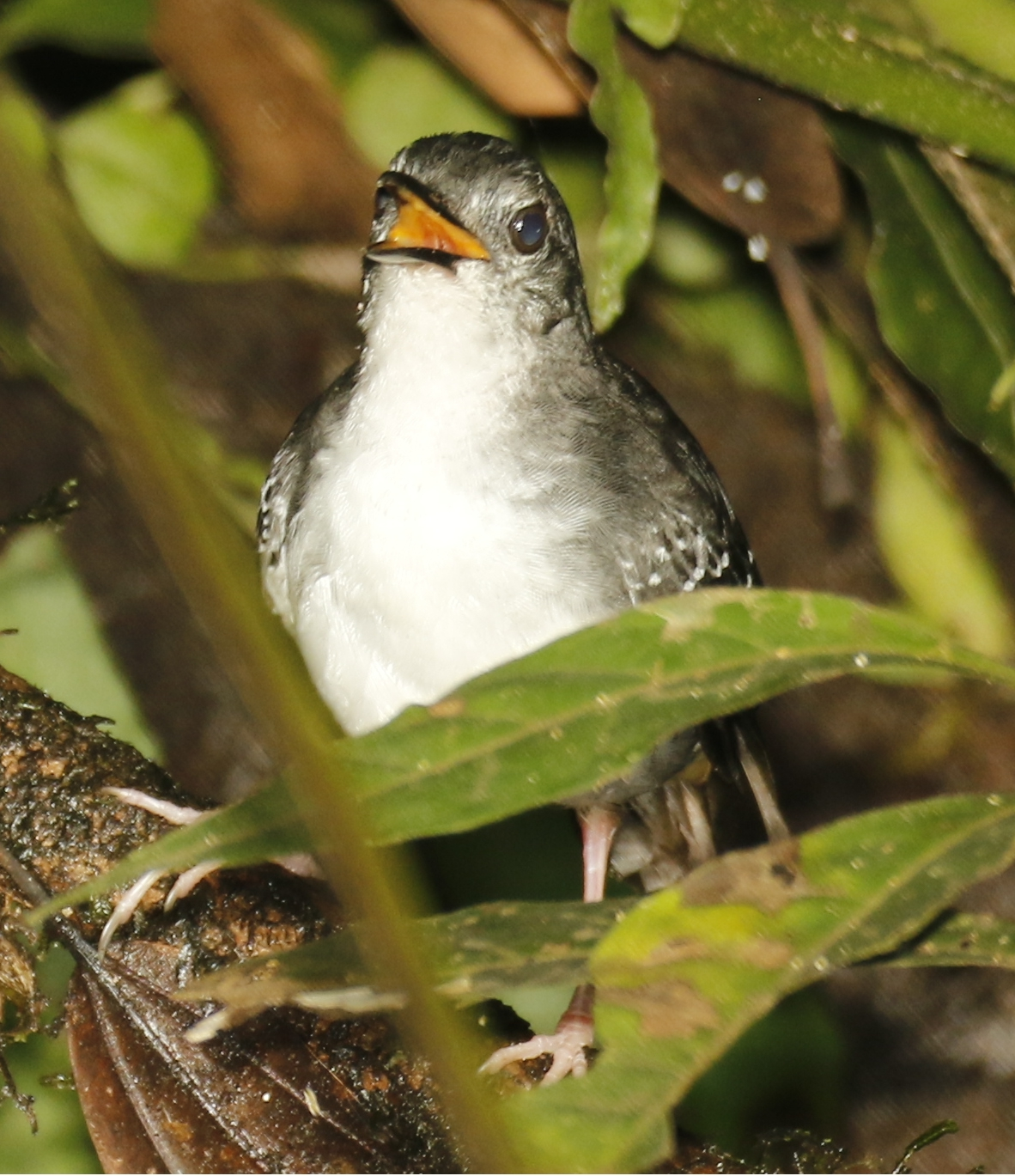 Sacha Lodge - Ecuador